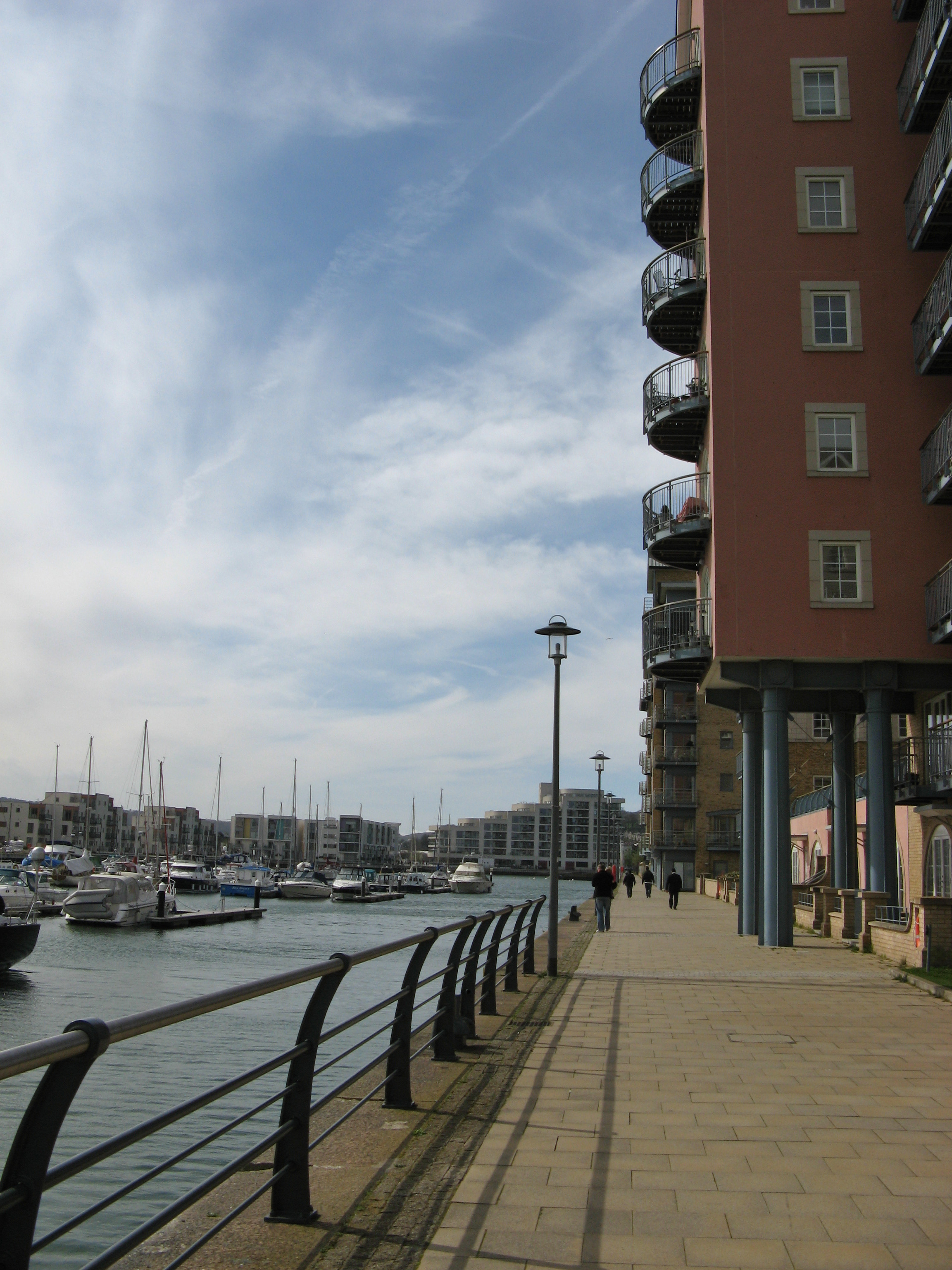 Portishead Marina, north dockside looking south-west.